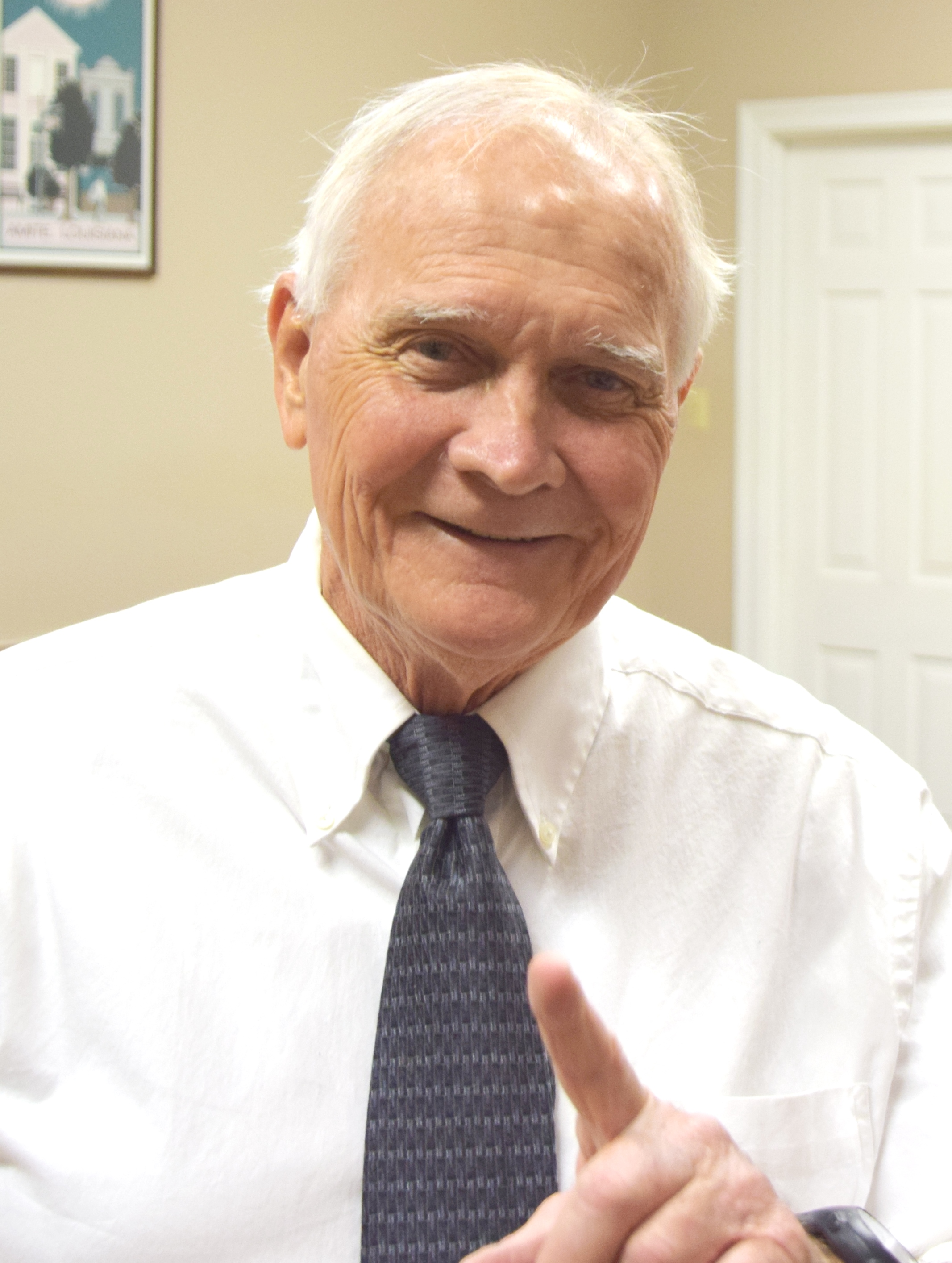 Buddy Bel (mayor of Amite, Louisiana) at the visitation for José Luís Abreu (1927-2015), Amite resident who was born in Cuba